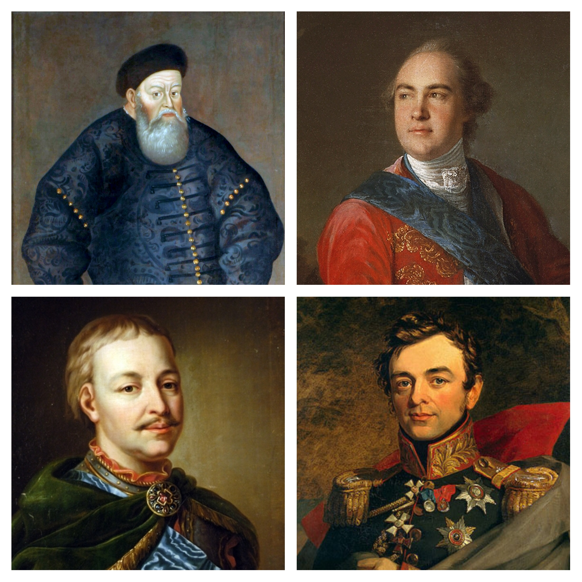 People on the photo: Kostiantyn Ostrozkyi (duke), Kyrylo Rozumovskyi (hetman), Ivan Mazepa (hetman), Ivan Paskevich (field marshal).